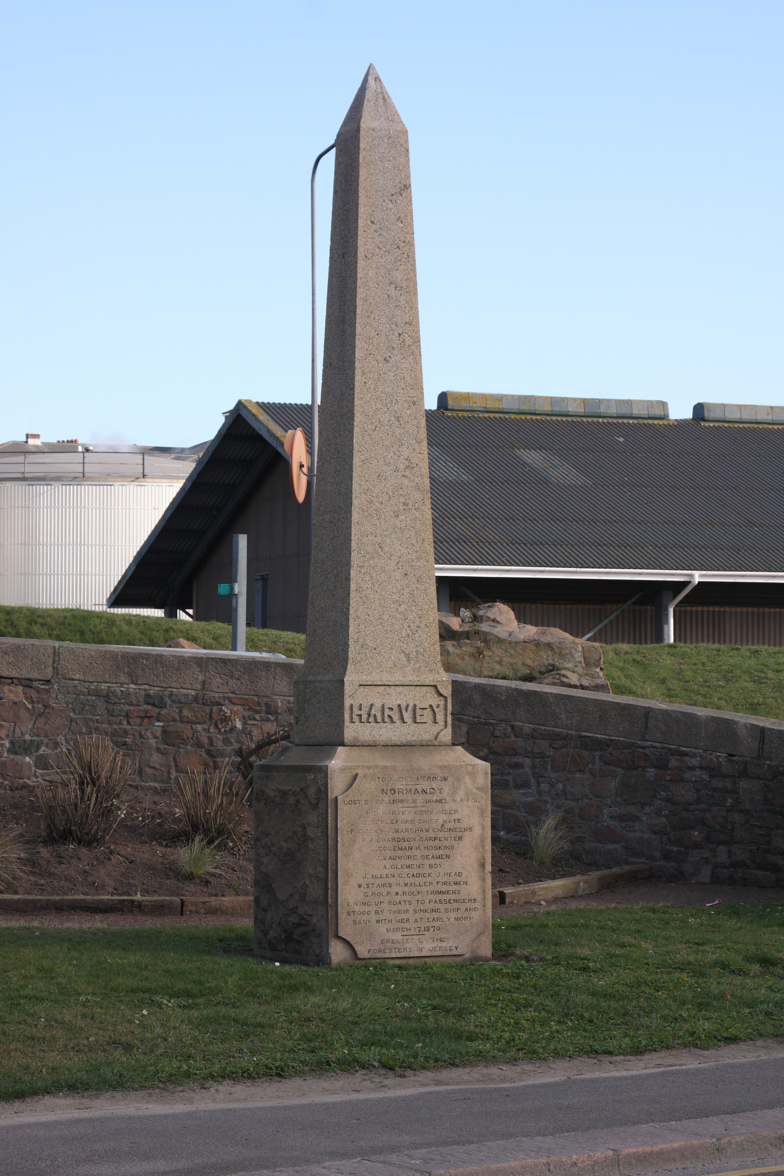 This monument is located at La Collette, St. Helier, Jersey. It is a monument to people who were lost at sea, and has the words "Harvey" and "Normandy" engraved on to it, as well as the names of people and other text. Inscription: Harvey To noble heroism Normandy lost by collision in Channel in a fog H.B. Harvey Commander J. Ockleford Chief Mate R. Cocks C. Marsham Engineers P. Richardson Carpenter J. Coleman H. Hoskins J. Wadmore Seamen A. Clement Boy J. Allen G. Cadick J. Head W. Stairs H. Waller Firemen G. Rolp W. Rolp Trimmers Giving up boats to passengers stood by their sinking ship and sank with her at early morn March 17.1870 Erected by the Foresters of Jersey